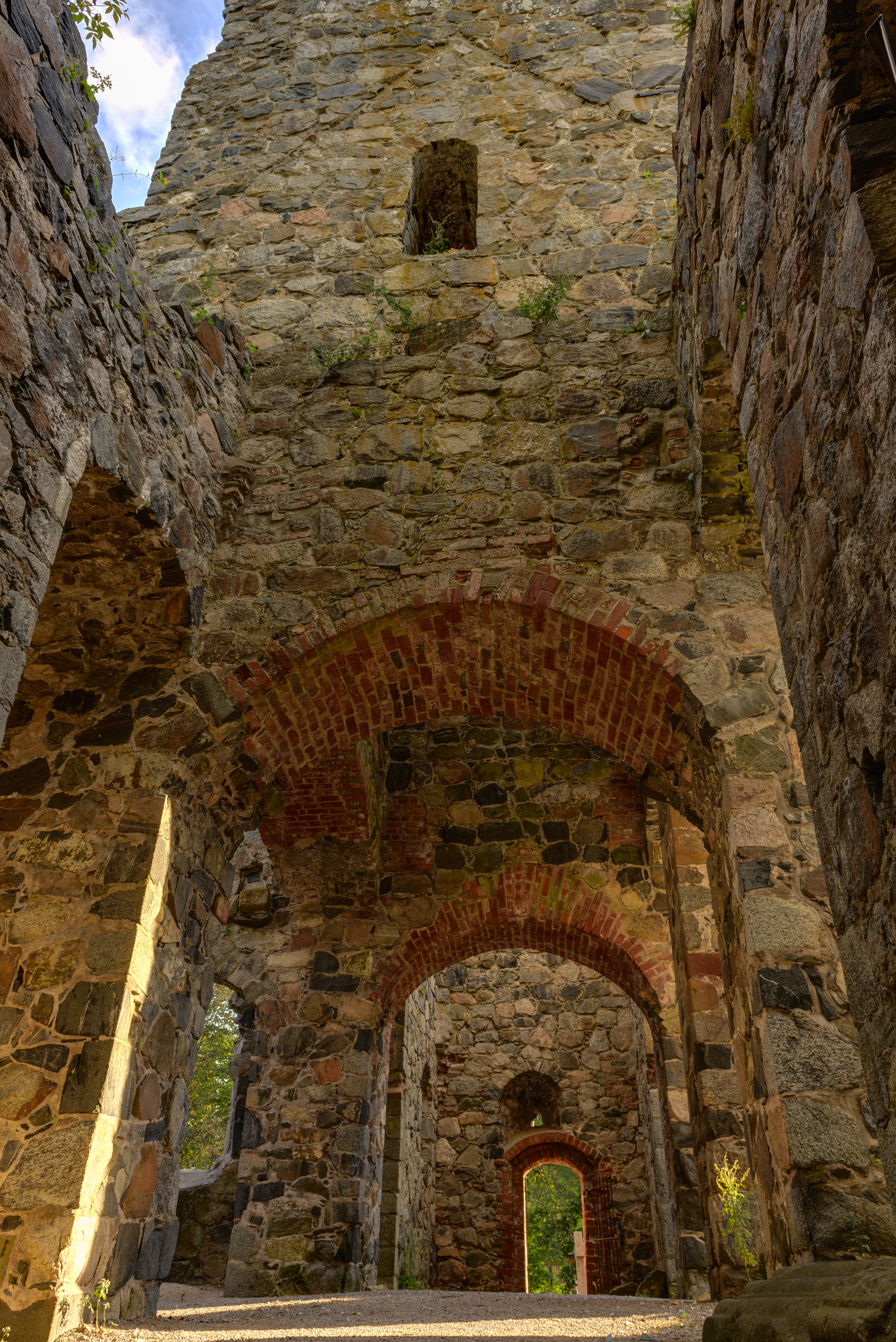 Ruins of the St Olof Church at Sigtuna.